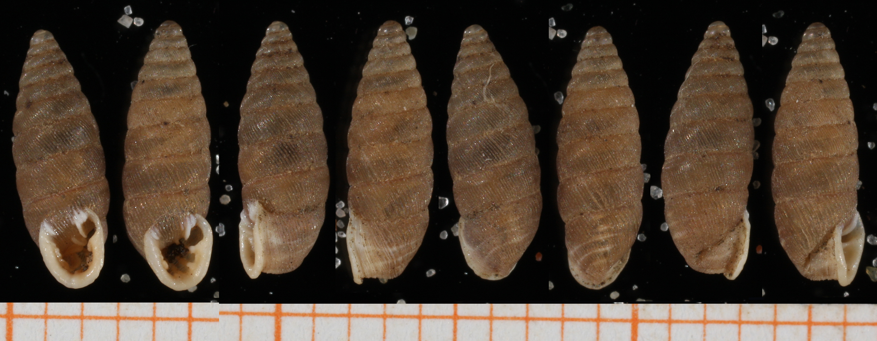 Abida partioti (Saint-Simon, 1848), Chondrinidae, Pulmonata, Gastropoda, Locality: Spain, Prov. Lleida, near Senterada